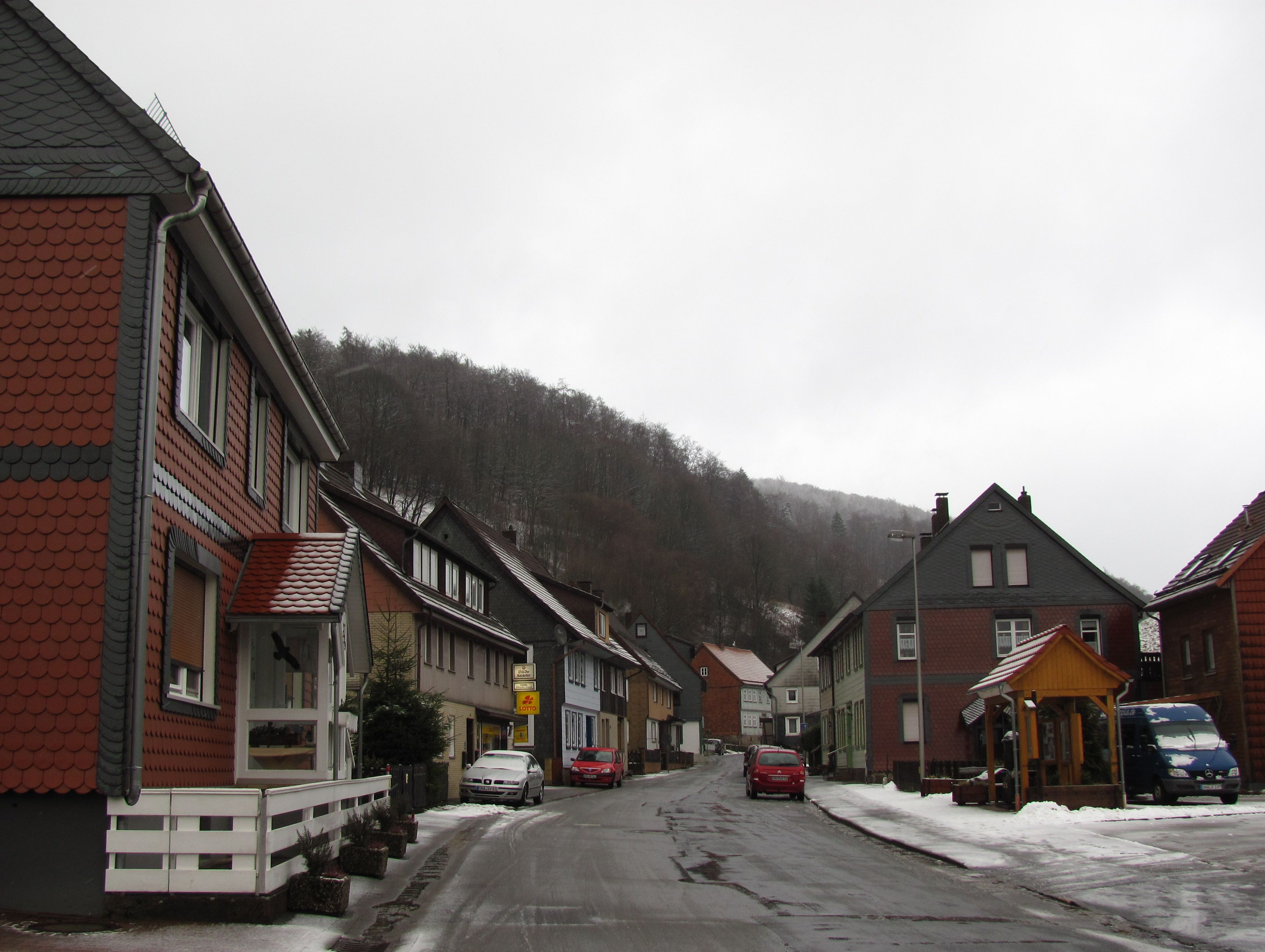 High Street, Lerbach, Harz mountains, Lower Saxony, Germany